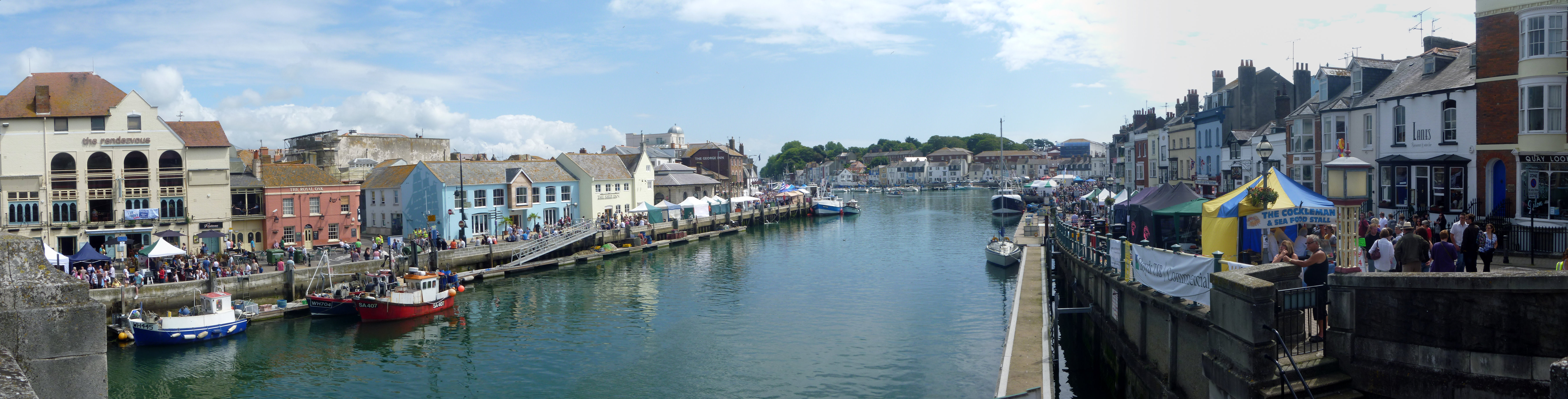 Dorset seafood festival in Weymouth panorama. Taken from Town bridge.